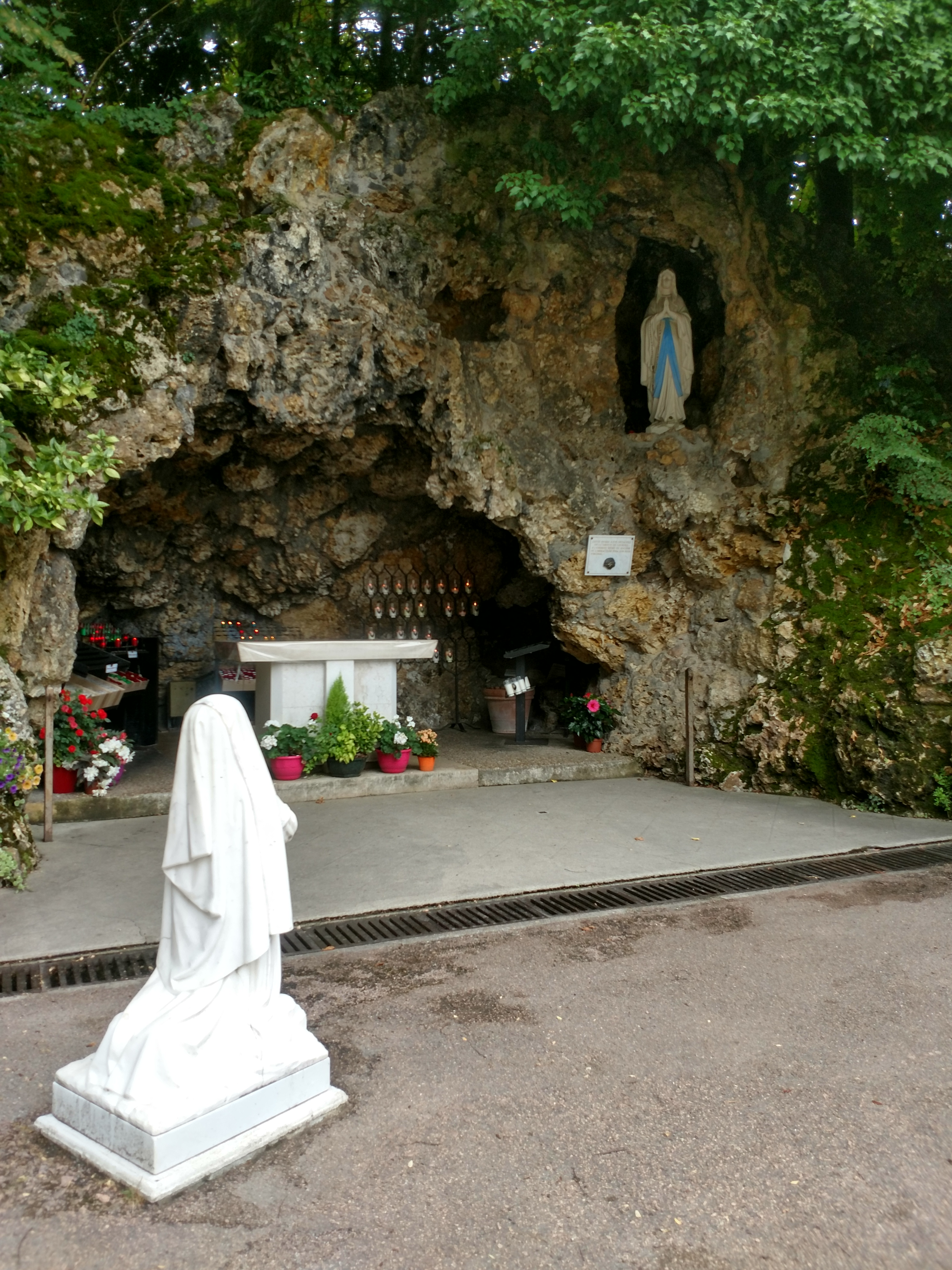 View of the replica grotto at Nevers, with a statue of Bernadette kneeling.